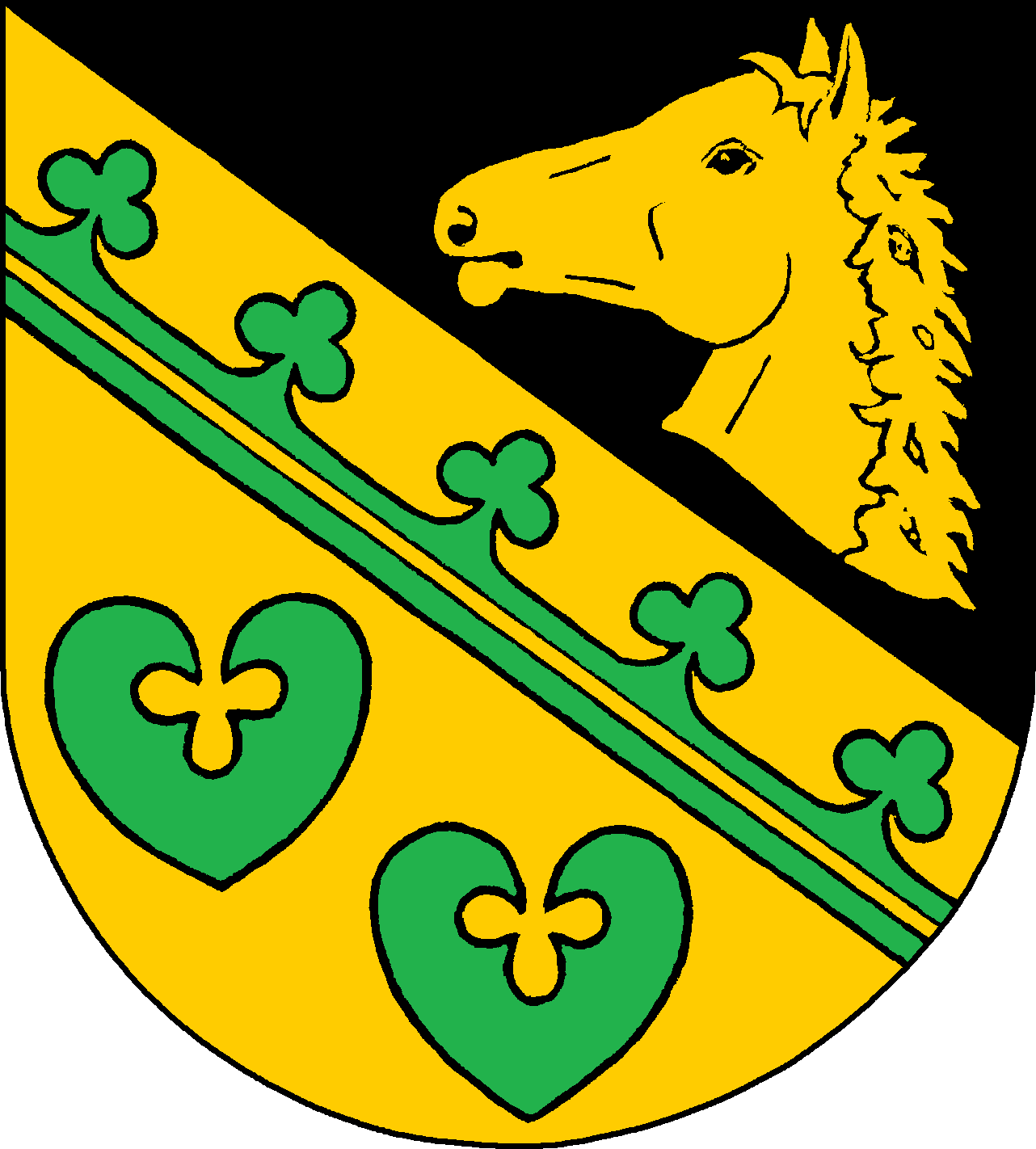 Coat of arms of the municipality Mustin in Schleswig-Holstein, Germany.